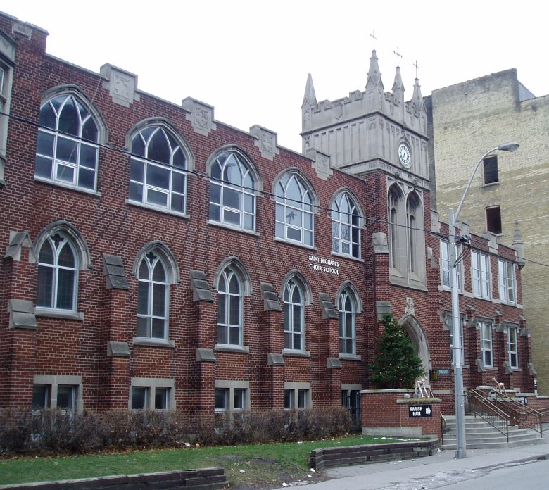 St. Michael's Choir School, taken by SimonP